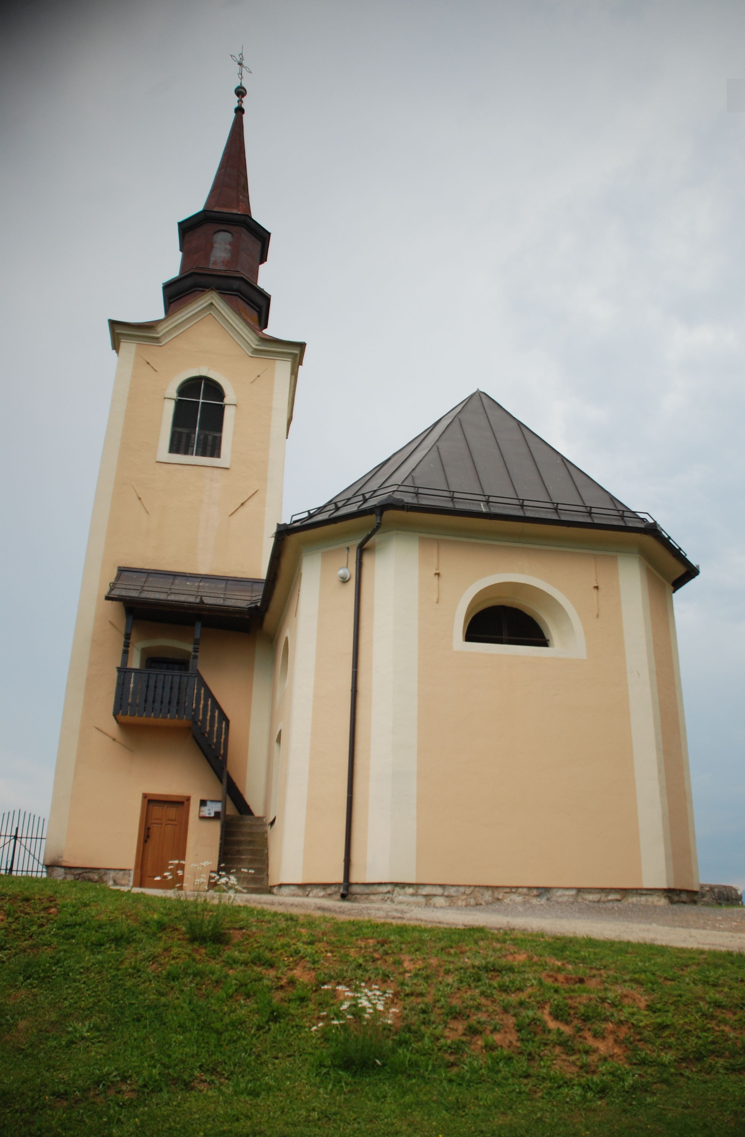 Griblje, Črnomelj - St. Vitus' Church